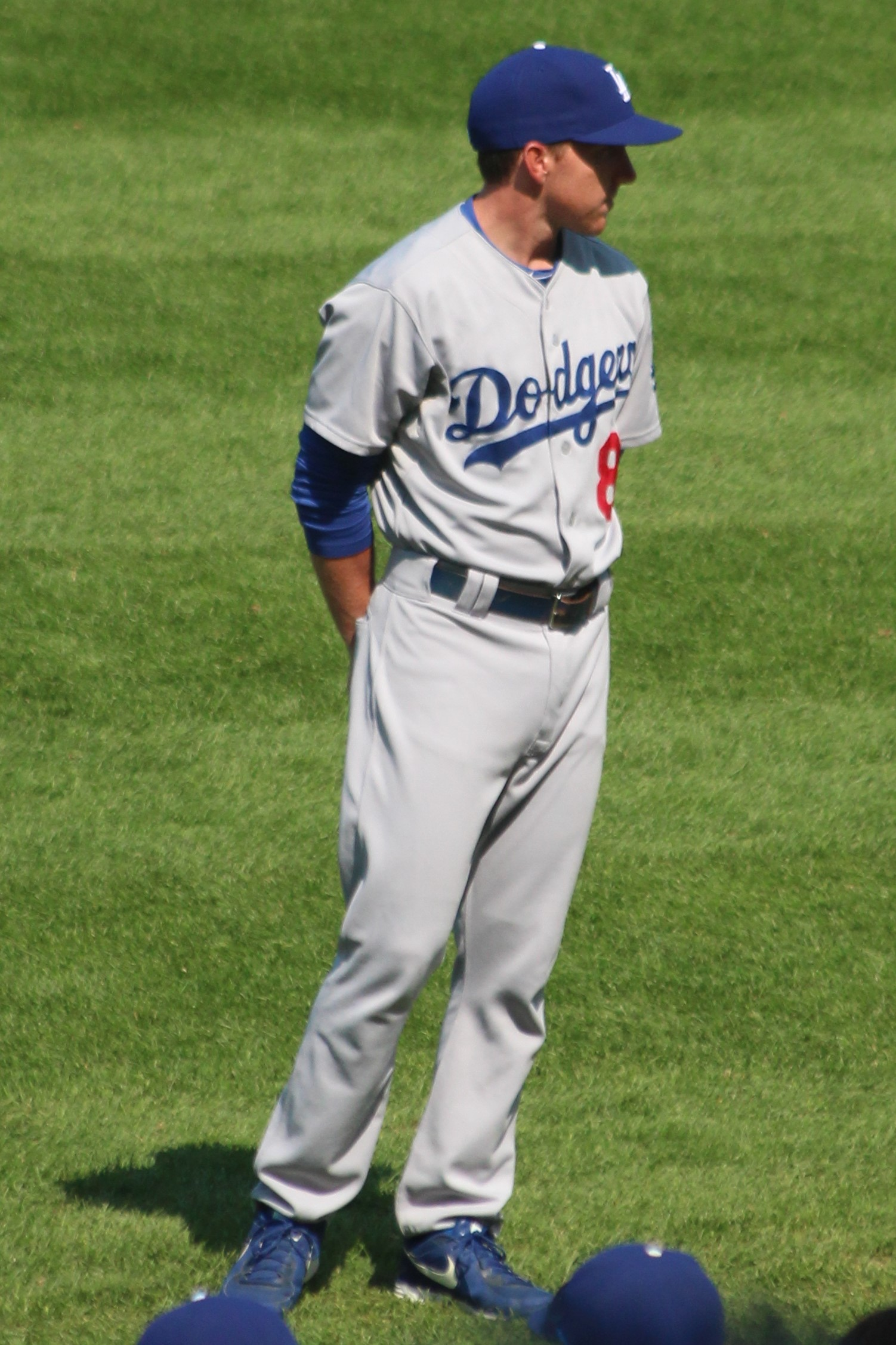 Steve Cilladi for the 2014 Los Angeles Dodgers against the 2014 Chicago Cubs at Wrigley Field.